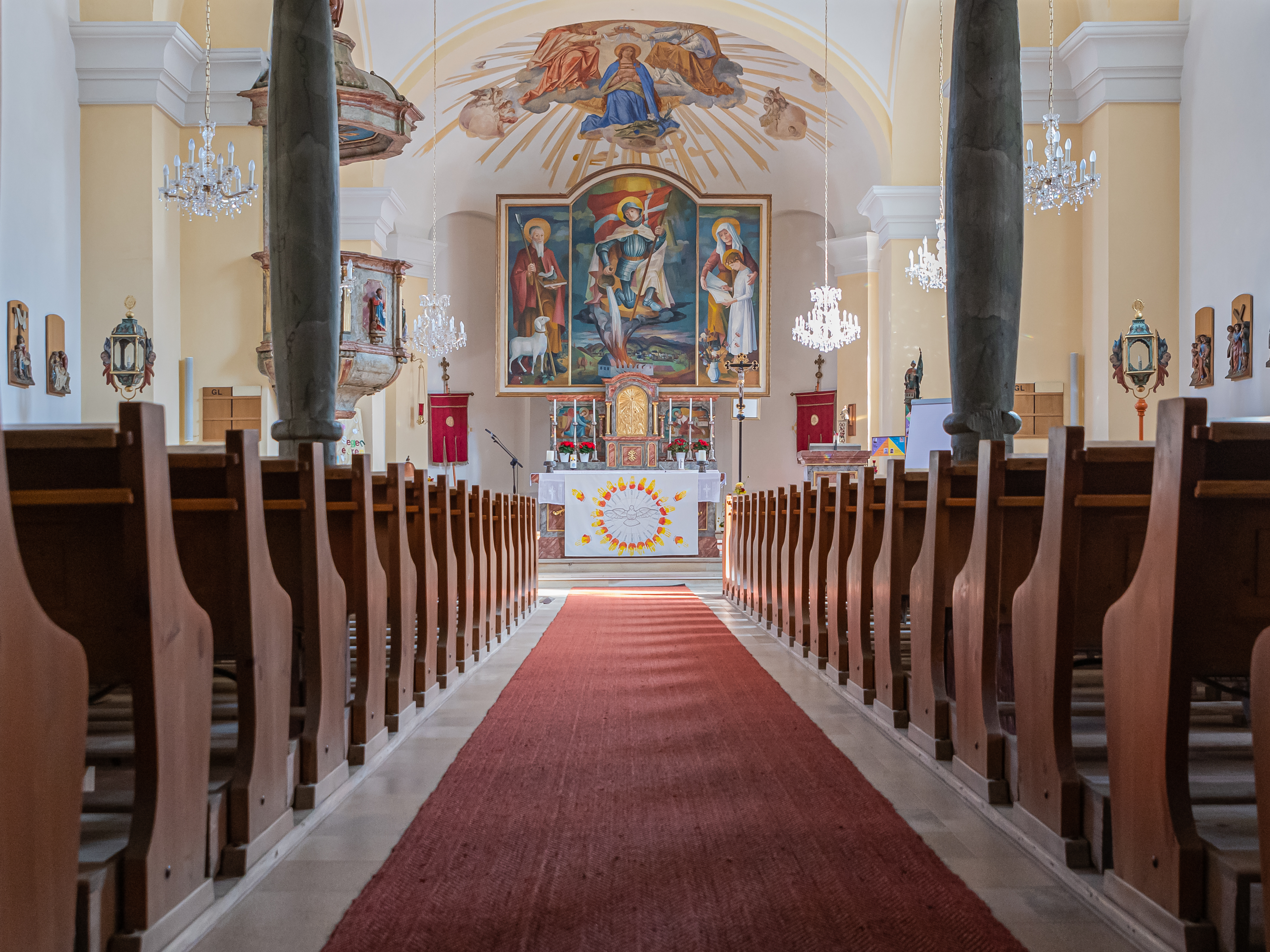 Nave of parish church in Steinbach am Ziehberg, Upper Austria